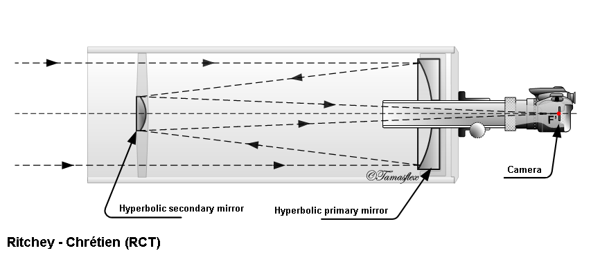 Ritchey-Chrétien telescope.